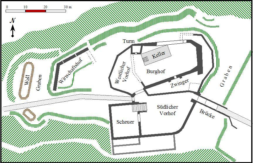 Ground Plan of Ruin Nippenburg (Schwieberdingen, Germany)